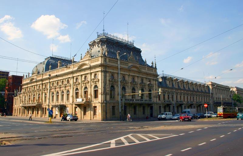 Izrael Poznański Palace, Piotrkowska Street, Łódź, Poland. Image taken from with the permission of the author.